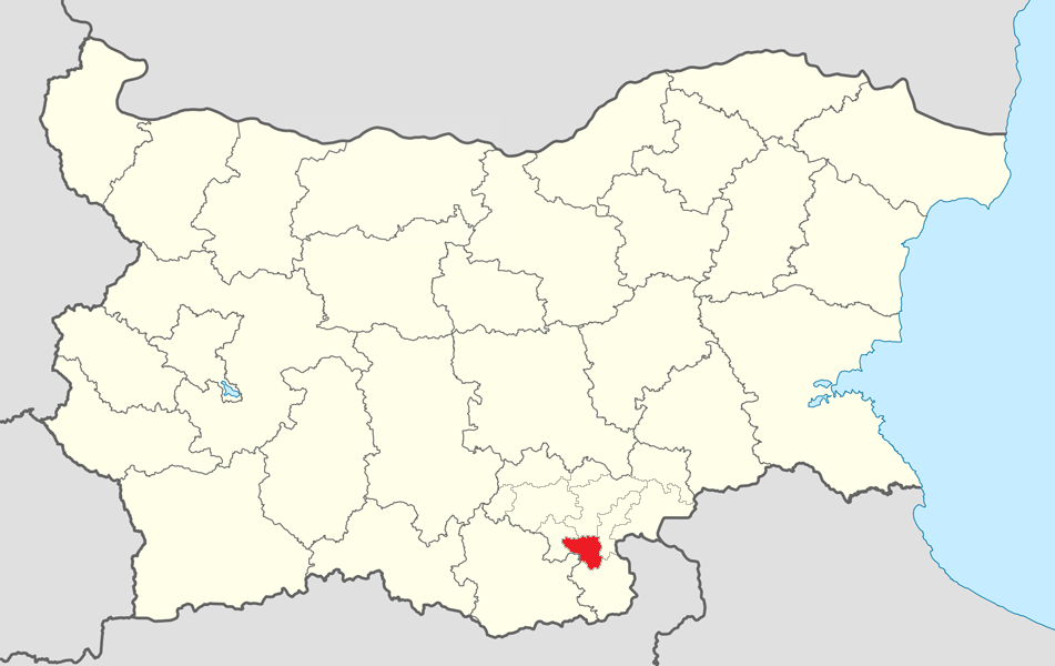 Location map of Madzharovo Municipality within Bulgaria and Haskovo Province